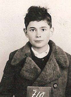 Ladislaus Löb in December 1944 after arriving in Switzerland from Bergen-Belsen. He was 11 years old at that time.